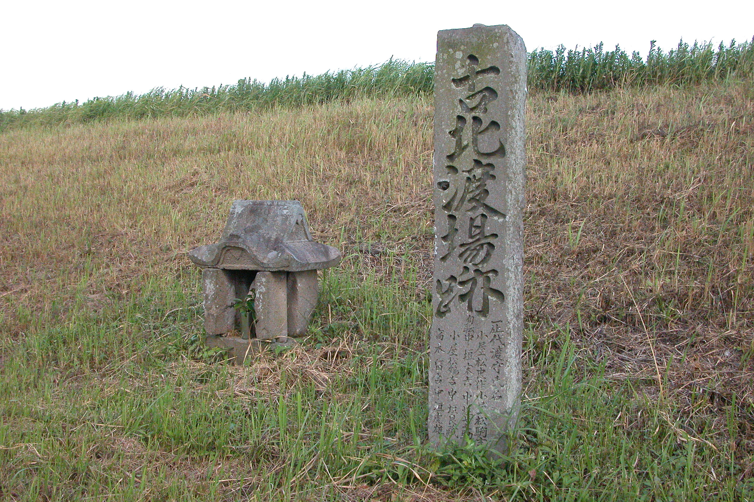 Furukita ferry trace monument